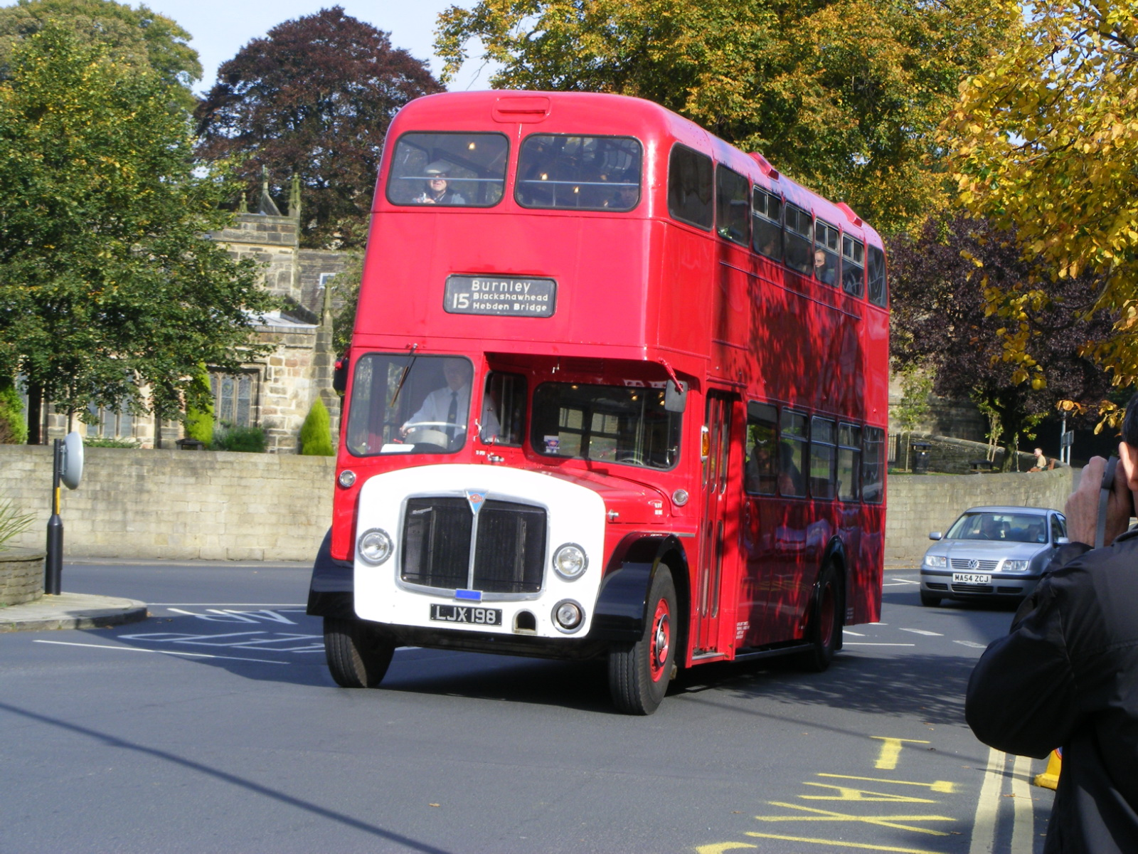 The Aire Valley Transport Group's running day based on Bolton Abbey Station